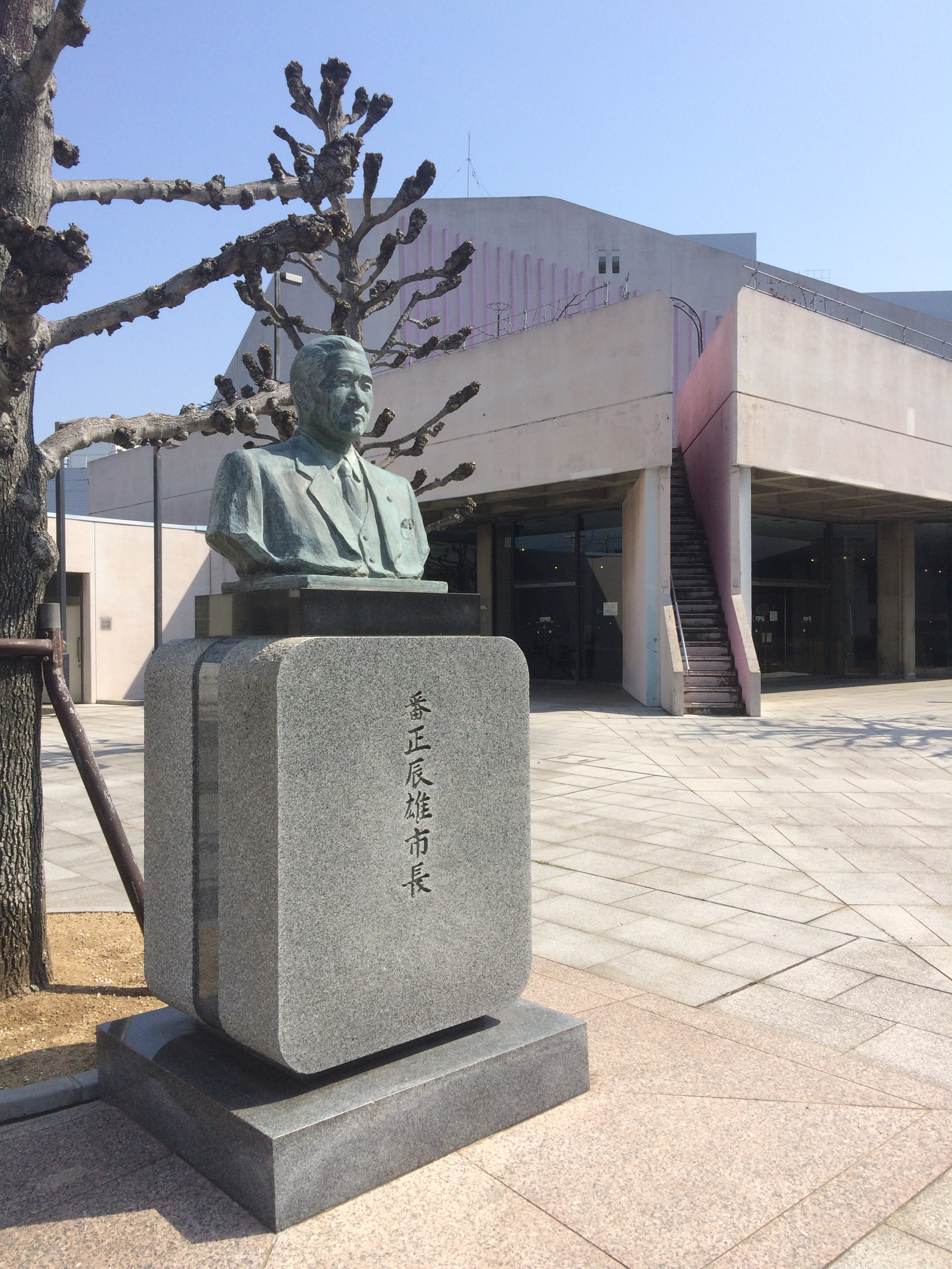 Bust of former Mayor Tatsuo Banjo (1916-1989: in office 1973-1989) in front of Sakaide Shimin Hall, Sakaide, Kagawa, Japan. Photographed 2018-03-11.